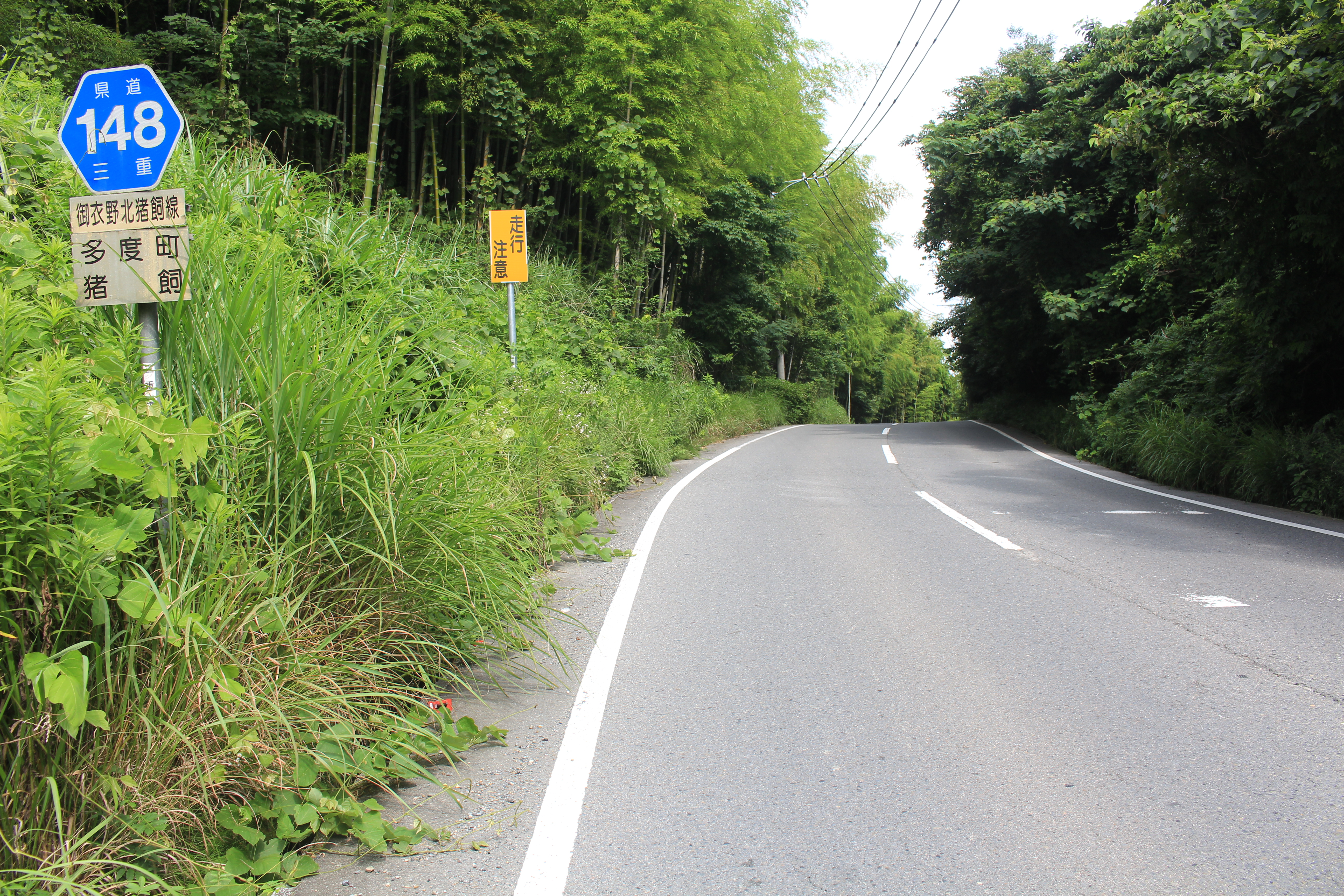 Mie Prefectural Road Route 148 in Ikai, Tado, Kuwana, Mie prefecture, Japan.